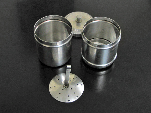 Disassembled South Indian coffee filter. Originally uploaded by User:Cheeni to Image:Empty filter.jpg on 22 October 2004